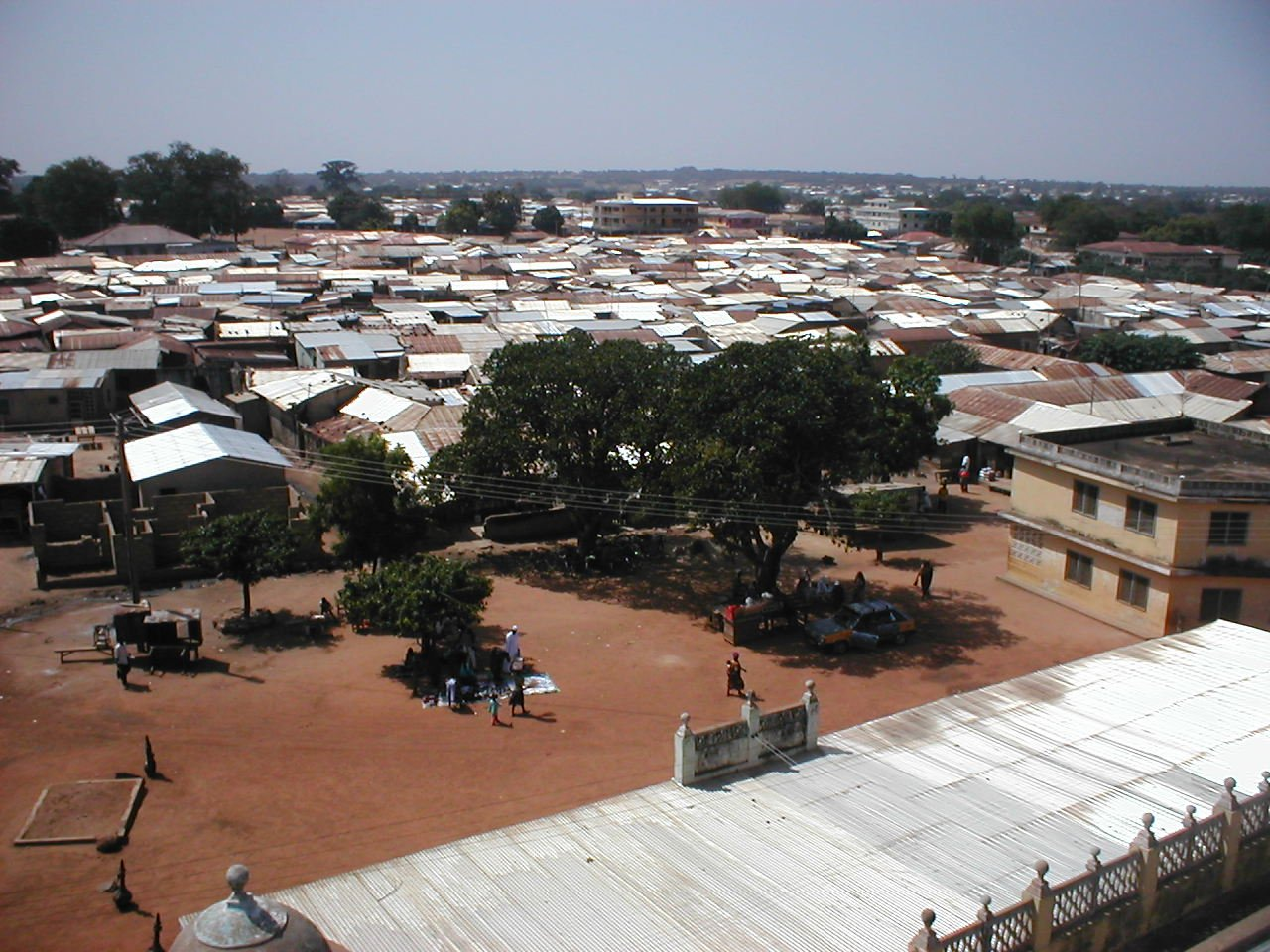 View of Wa in Upper West Region of Ghana, taken from mosque tower